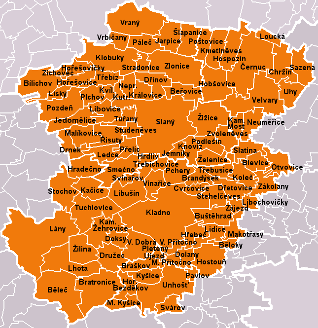 Municipalities of Kladno District as of January 1, 2010 (100 municipalities in total). White lines of variable thickness show boundaries of municipalities, administrative areas, districts and regions.